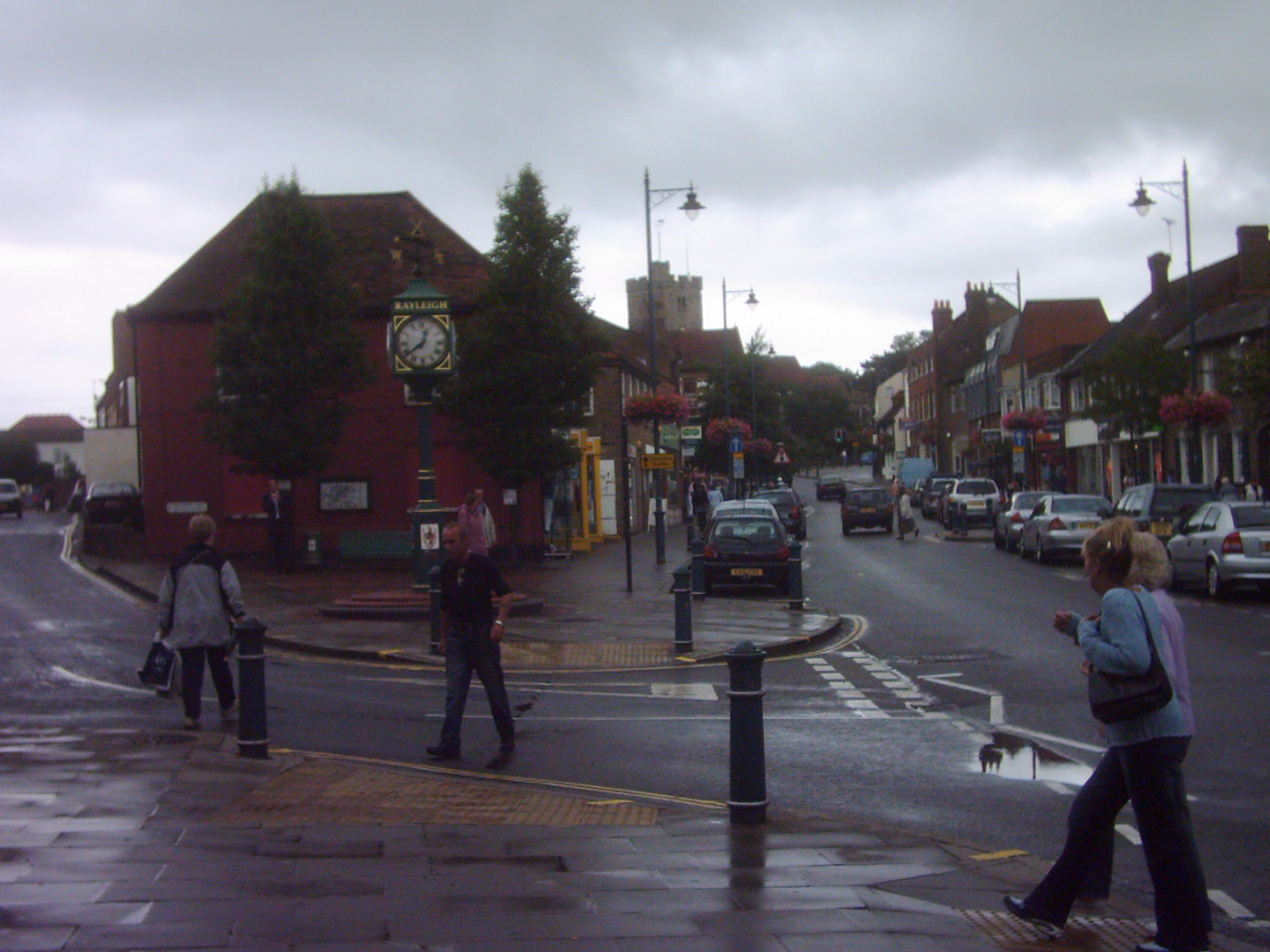 Rayleigh High Street in Rayleigh, Essex, looking towards the Church 2005